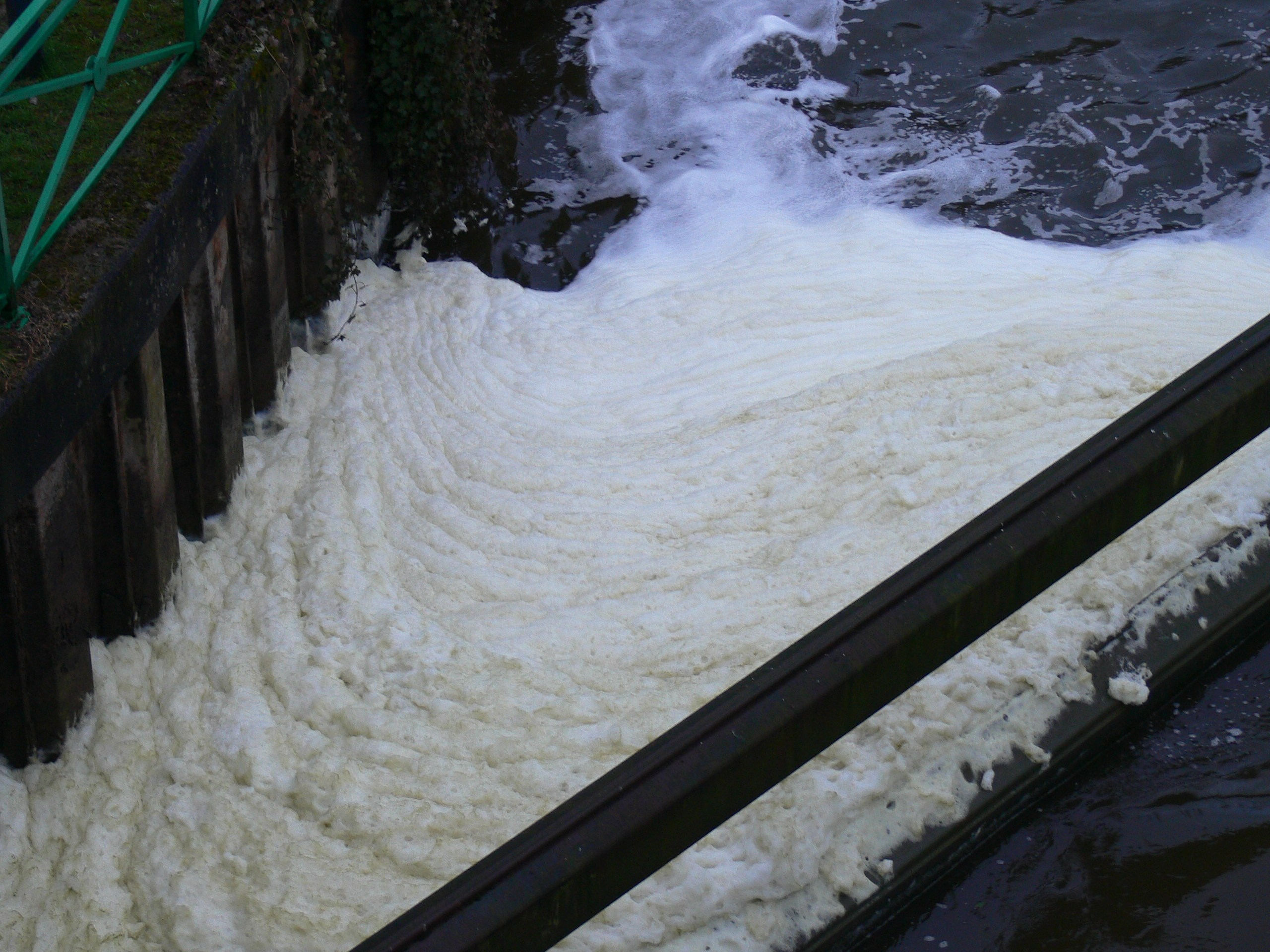 pollution on the river Deule (north of france).